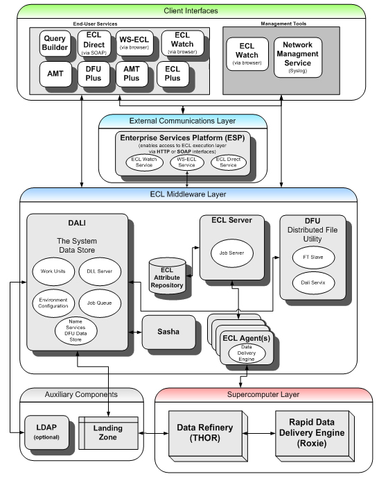 Architectural diagram of LN HPCC depicting the different functional components